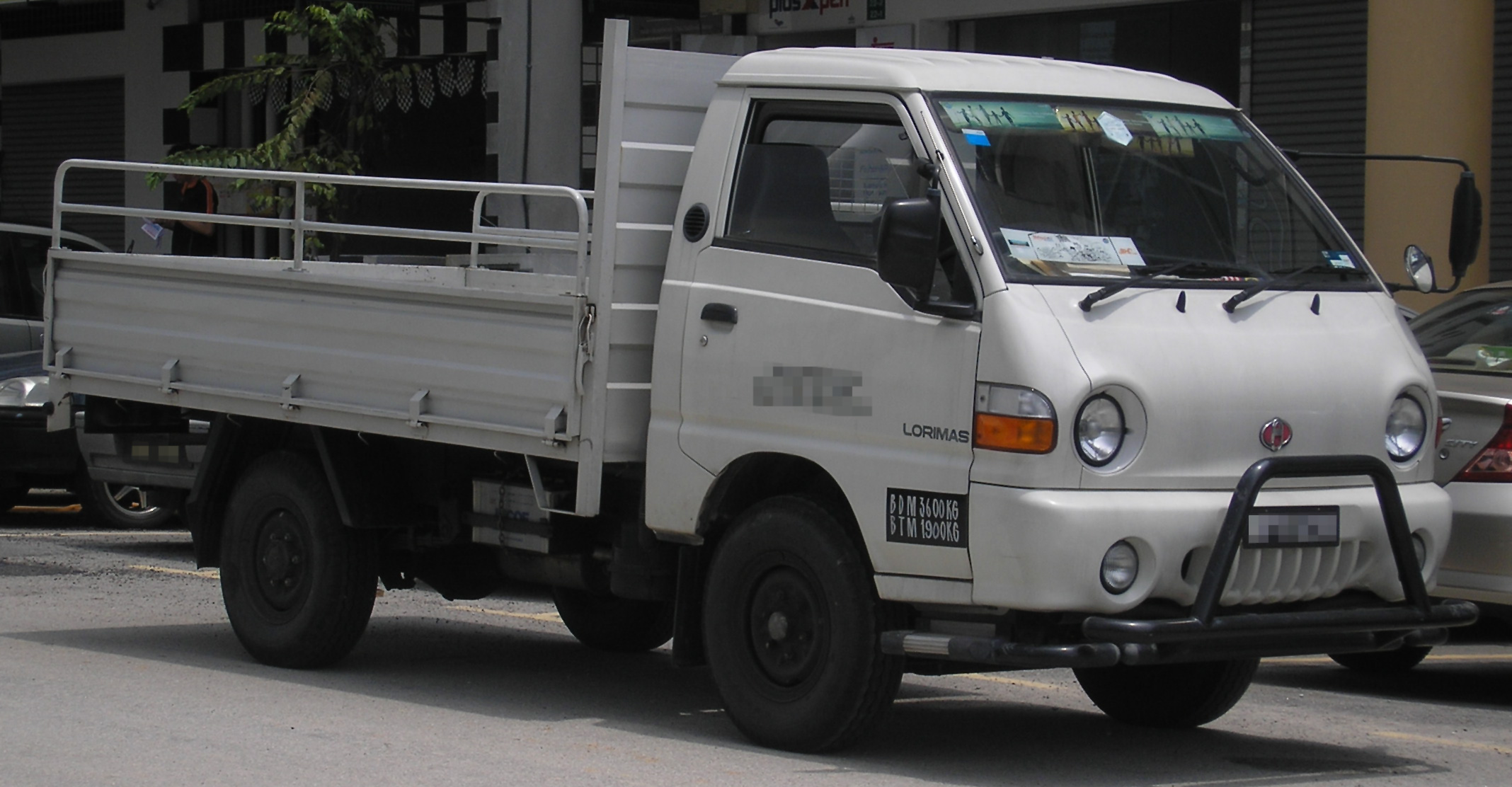 Front-side shot of a first generation Inokom Lorimas, essentially a rebadged Hyundai Porter, in Serdang, Selangor, Malaysia.